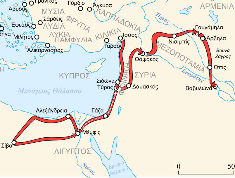 Map of a part of Alexander's route in Asia.